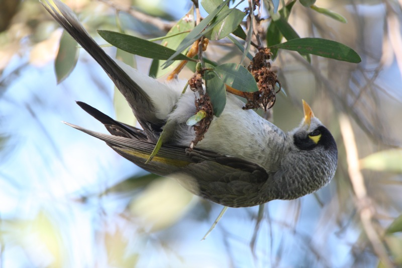 Noisy Miner Manorina melanocephala ssp nominate race, Manorina melanocephala melanocephala Centiennal Park, Sydney, NSW, Australia 9th. August 2008 690V9259